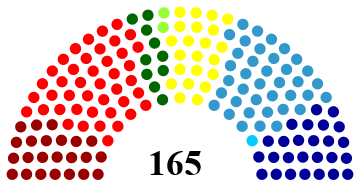 Chart of the Norwegian parliament (2001-2005).